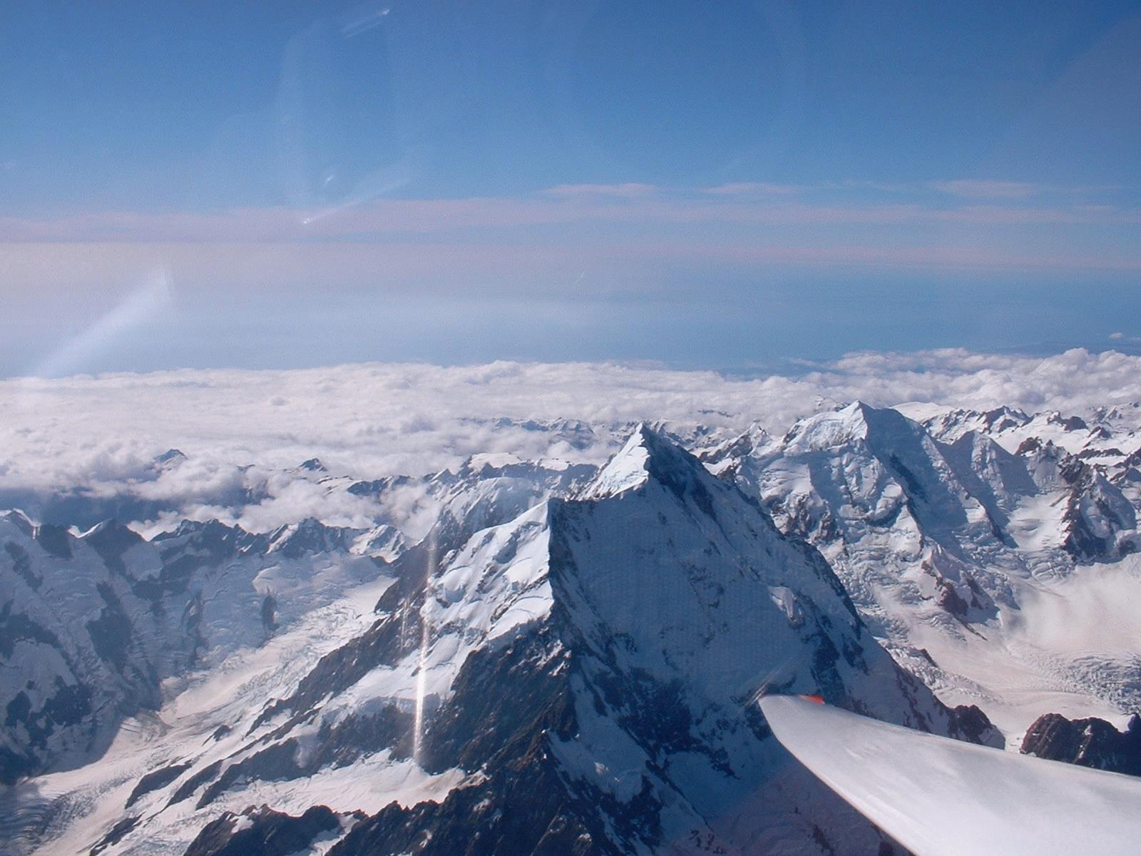 Aoraki/Mount Cook as seen from SSW flying at altitude 4000m in a glider from Omarama, a commercial gliding site 100km from the mountain.